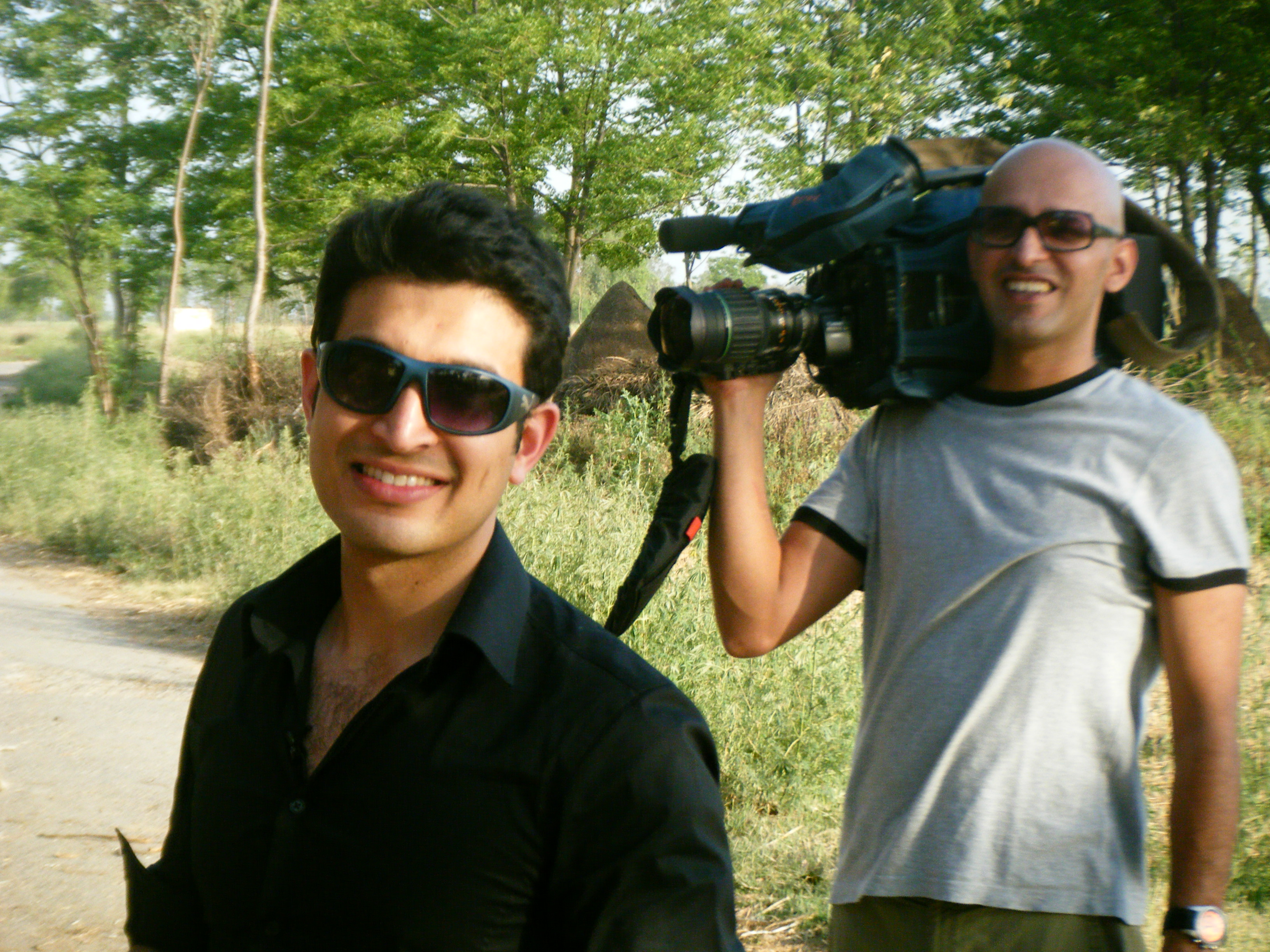 Imran Garda (me!) and Maurya Guatam our Hashim Amla lookalike (without the beard of course)